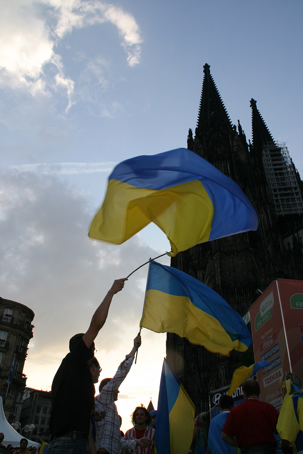 Impression from FIFA World Cup 2006 Cologne (round of 16, match Ukraine-Switzerland